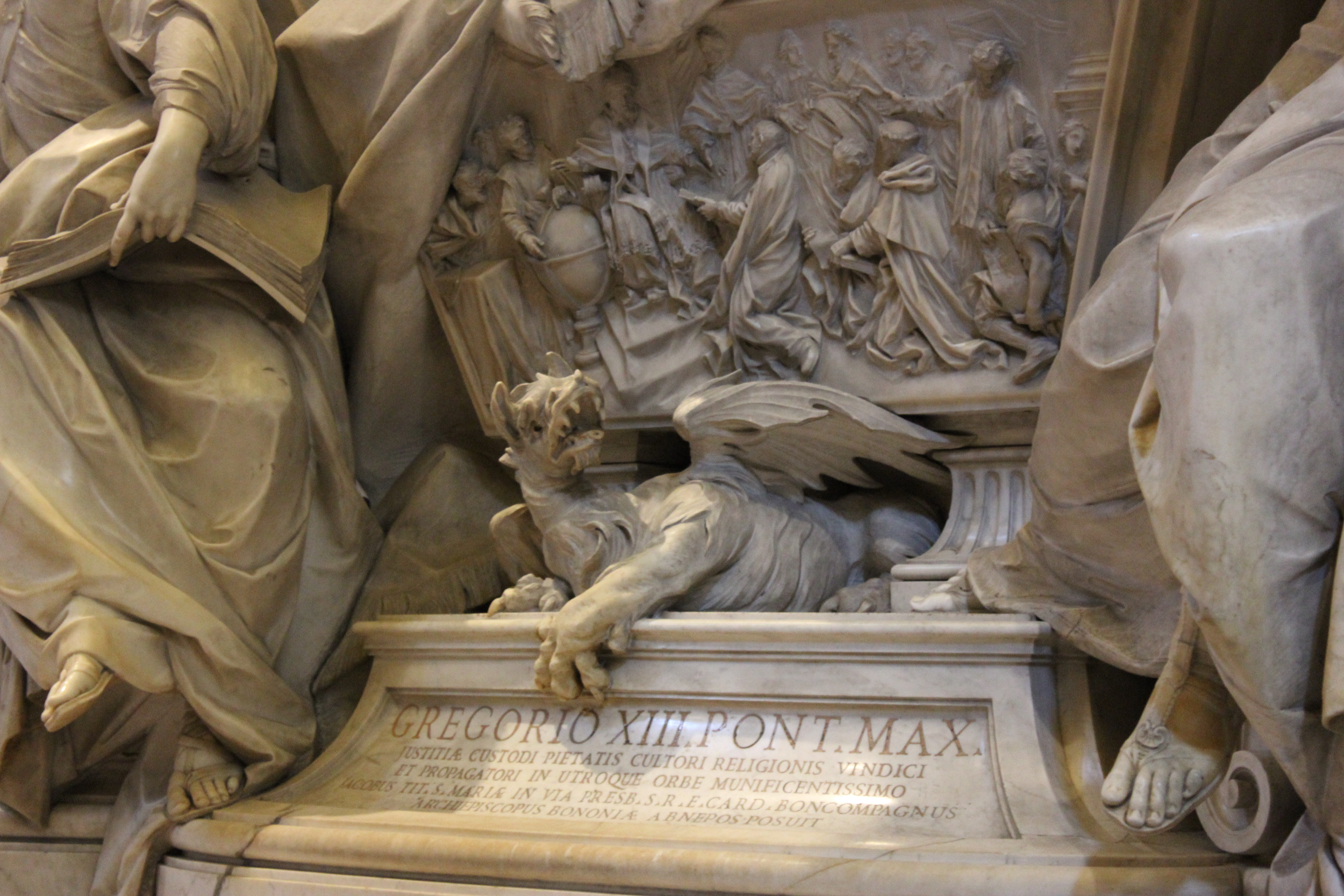 Camillo Rusconi (1658–1728). The tomb of Pope Gregory XIII for the St. Peter's Basilica, Vatican (1715–1723).